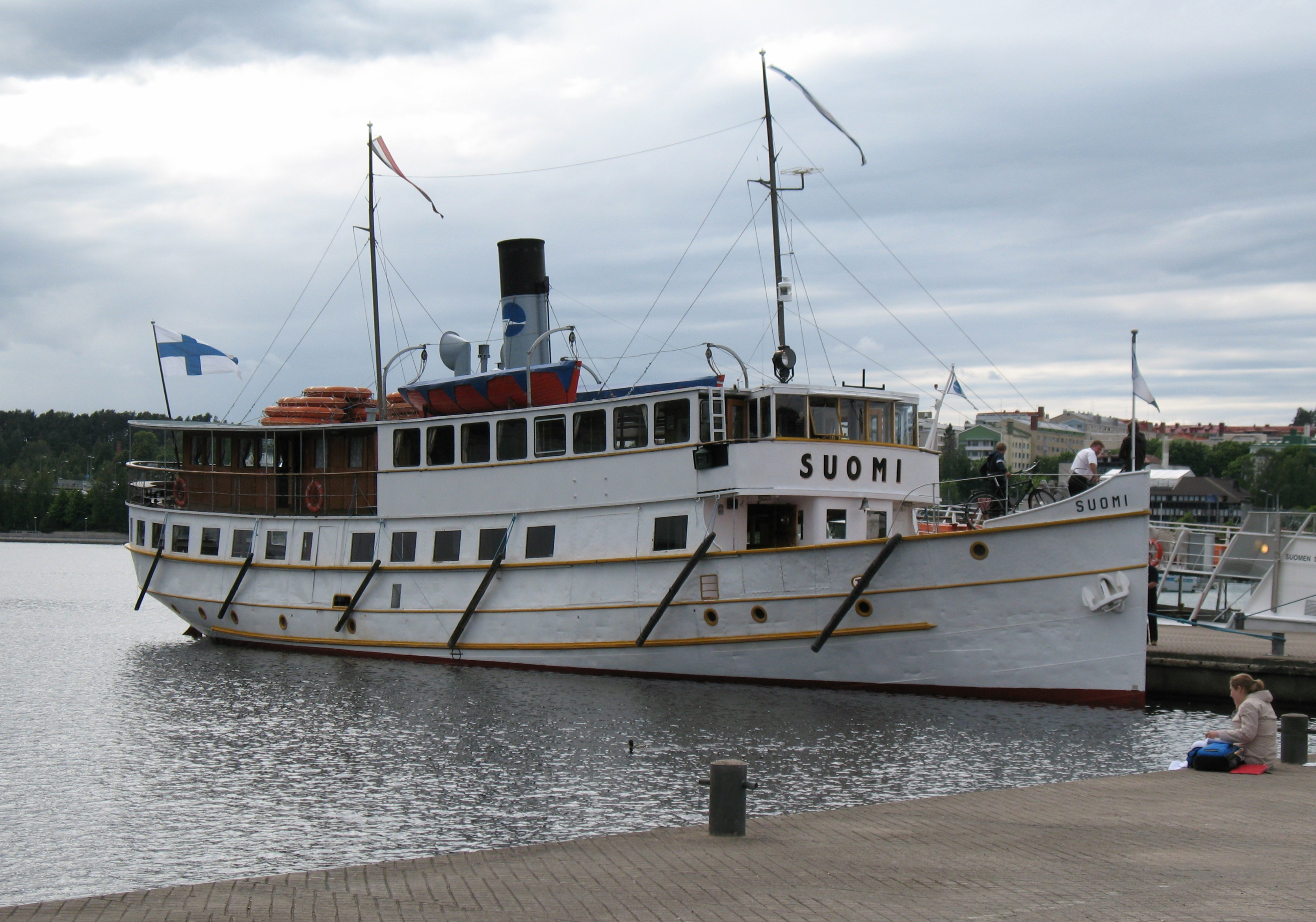 Finnish steamboat S/S Suomi in Jyväskylä harbour.